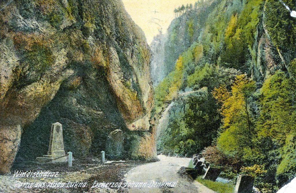 Postcard of Huda Luknja.